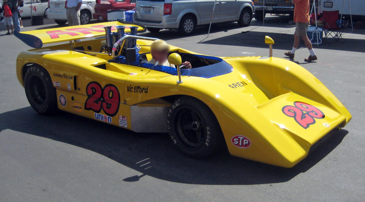 1971 McLaren M8E (ex Vic Elford) at the Laguna Seca Historics, 2009